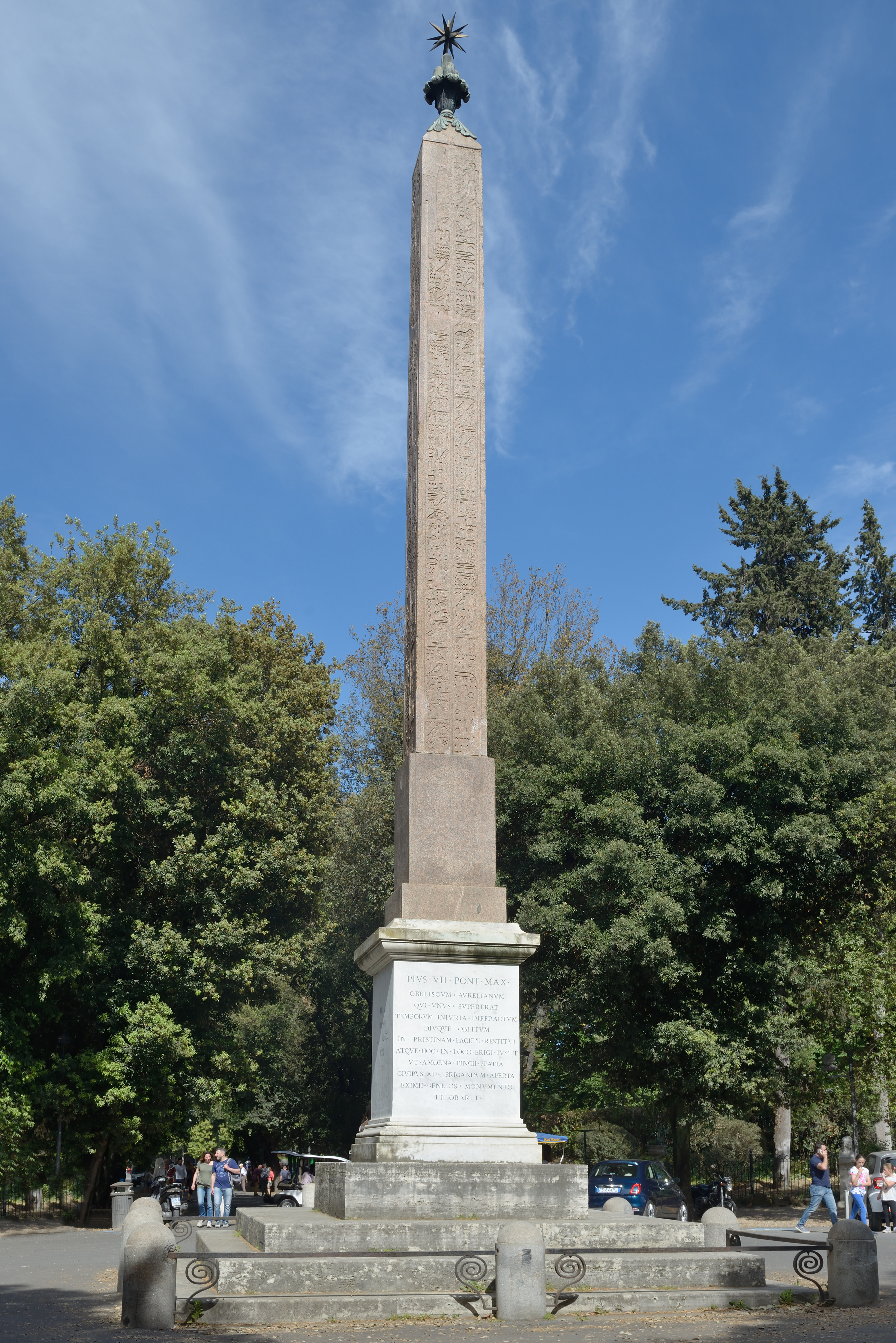 The Antinous obelisk in the Villa Borghese gardens in Rome.